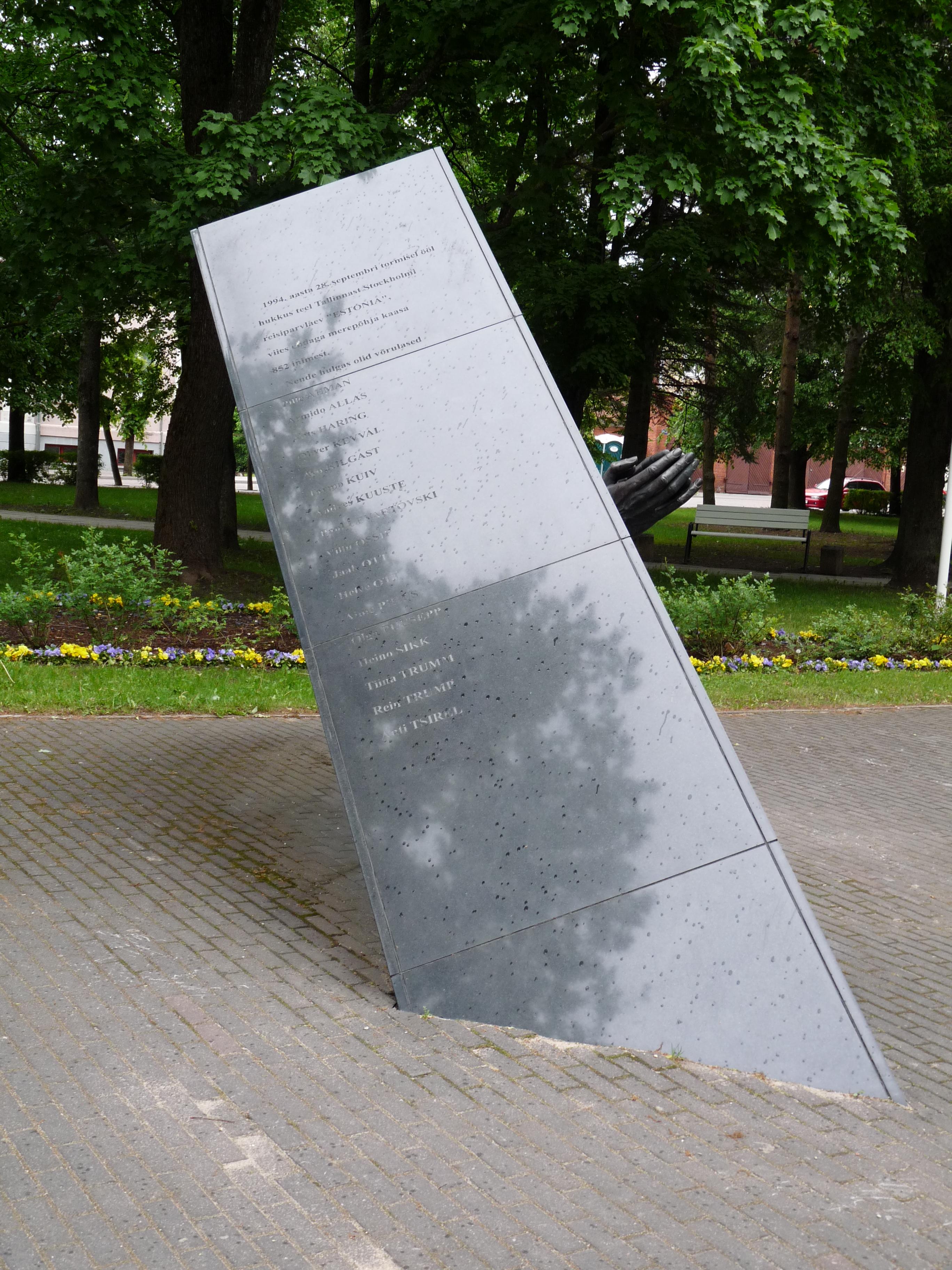 Monument for the sunken Estonia ferry in Võru